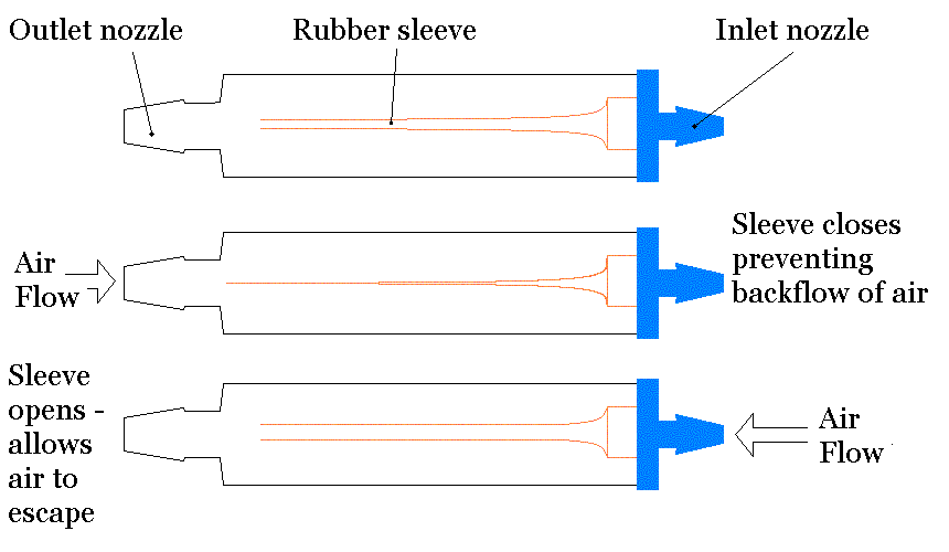 Line diagram of Heimlich Valve (Flutter Valve) including mechanism for one-way airflow.